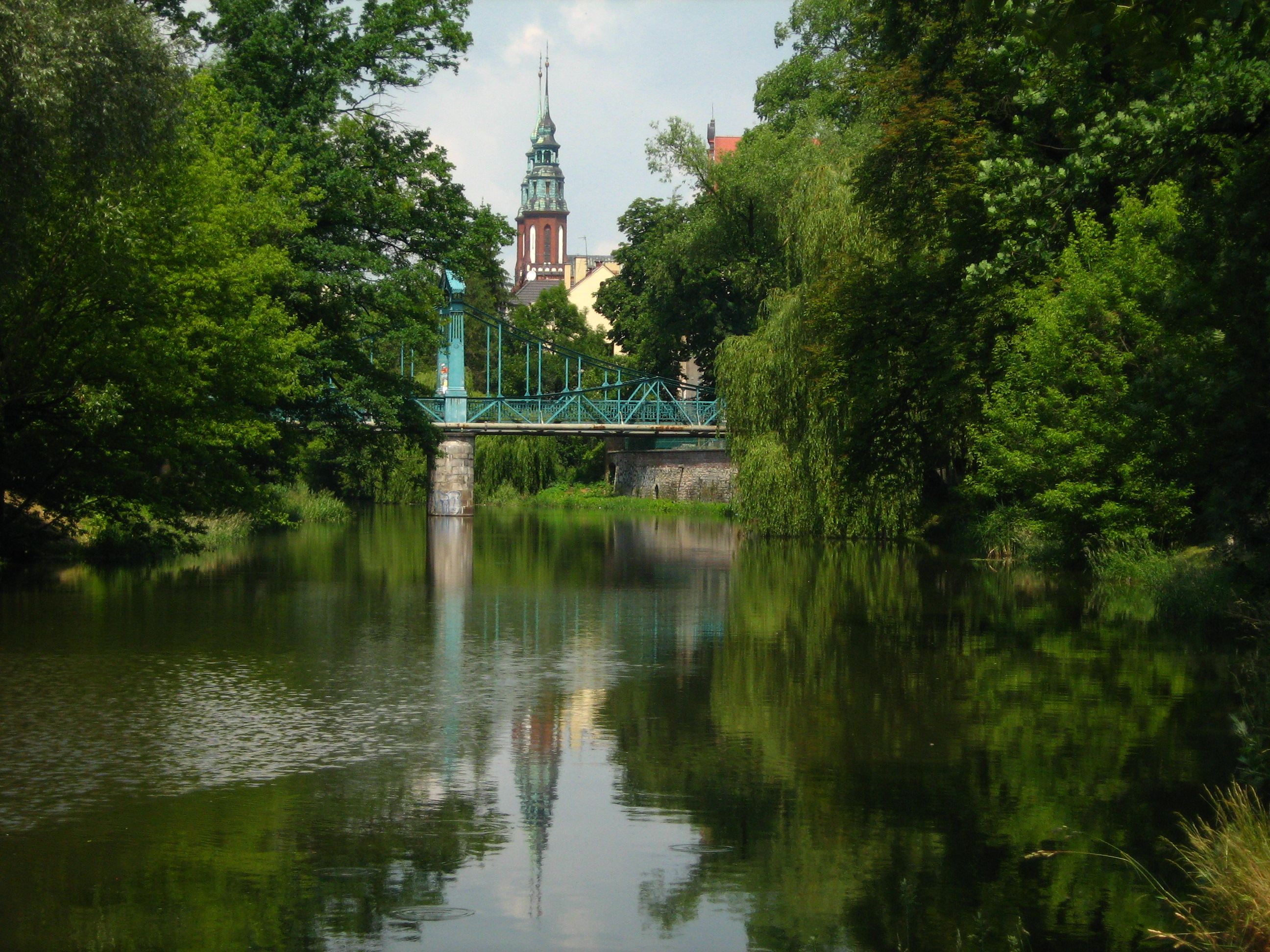 Opole, Most groszowy